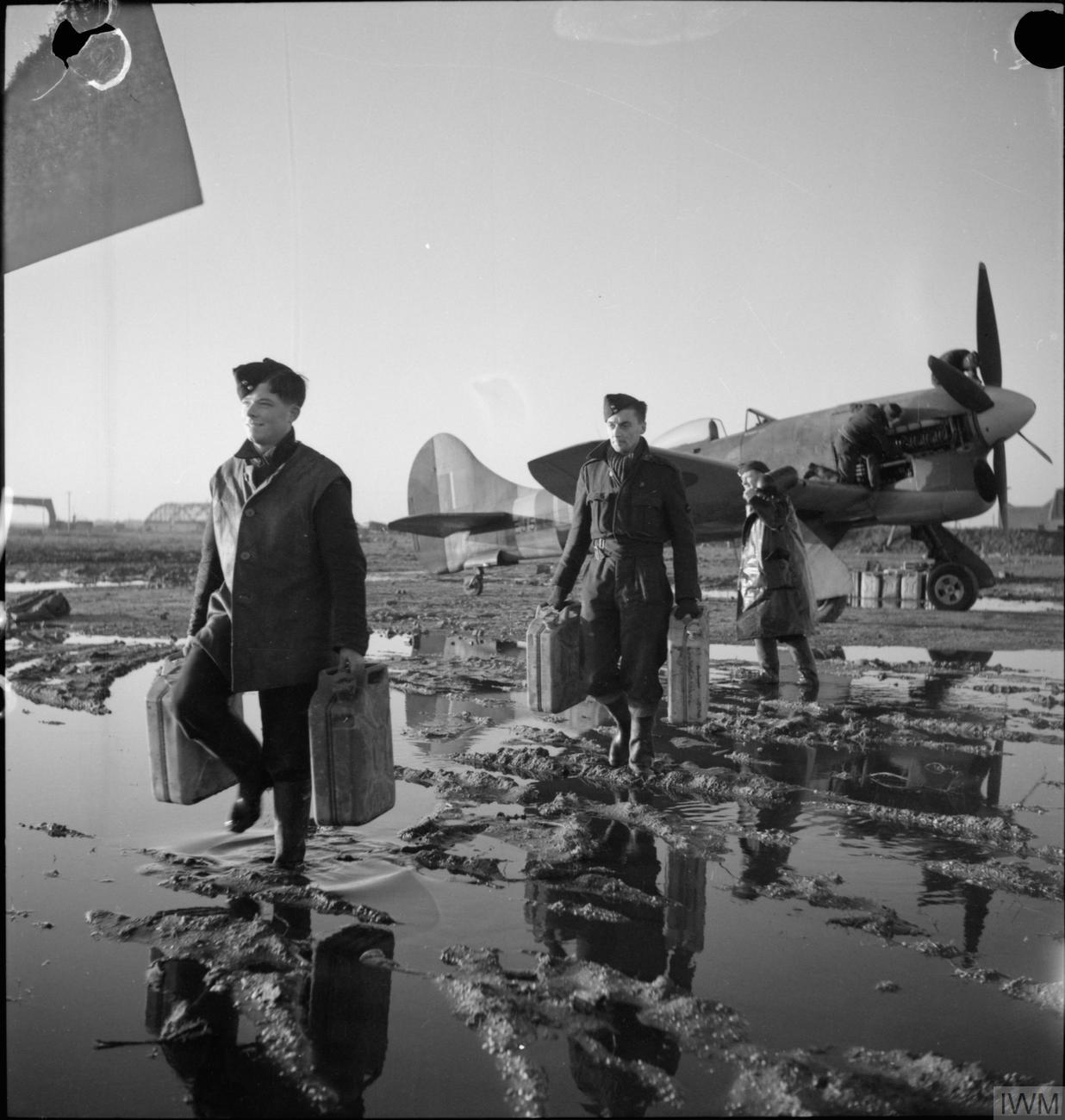 Royal Air Force- 2nd Tactical Air Force, 1943-1945. Ground crew servicing and refuelling a Hawker Tempest Mark V of No. 56 Squadron RAF in flooded conditions after the heavy rains at B80/Volkel, Holland.